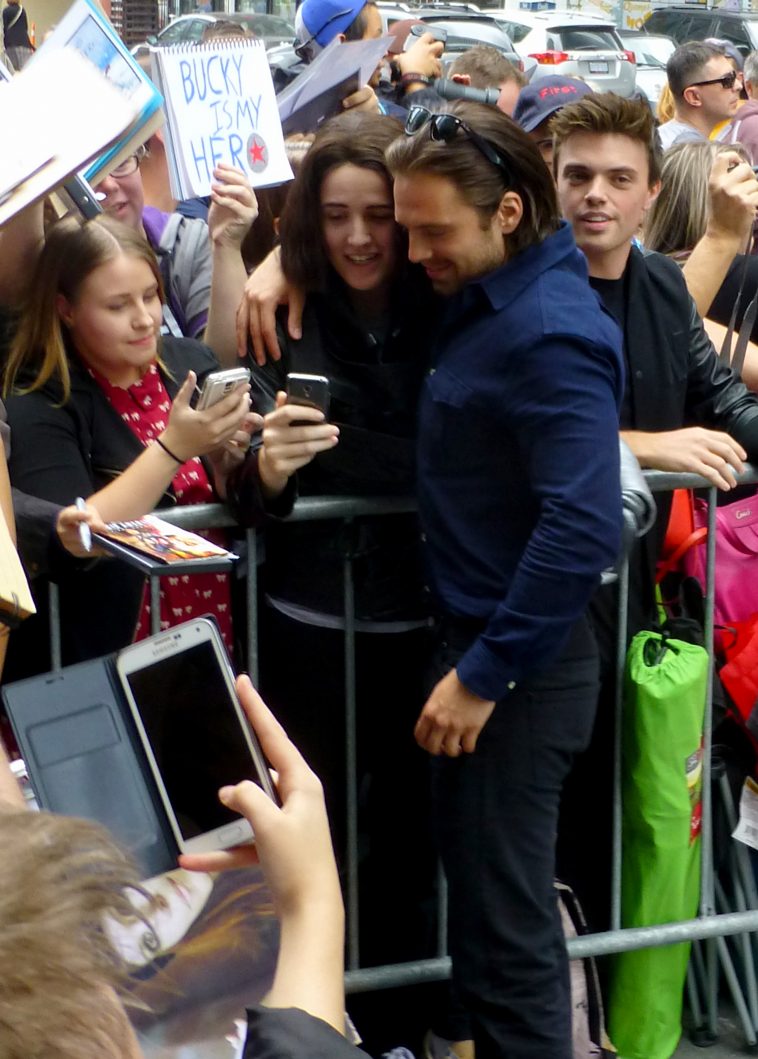 Sebastian Stan at press conference for the Martian, 2015 Toronto Film Festival